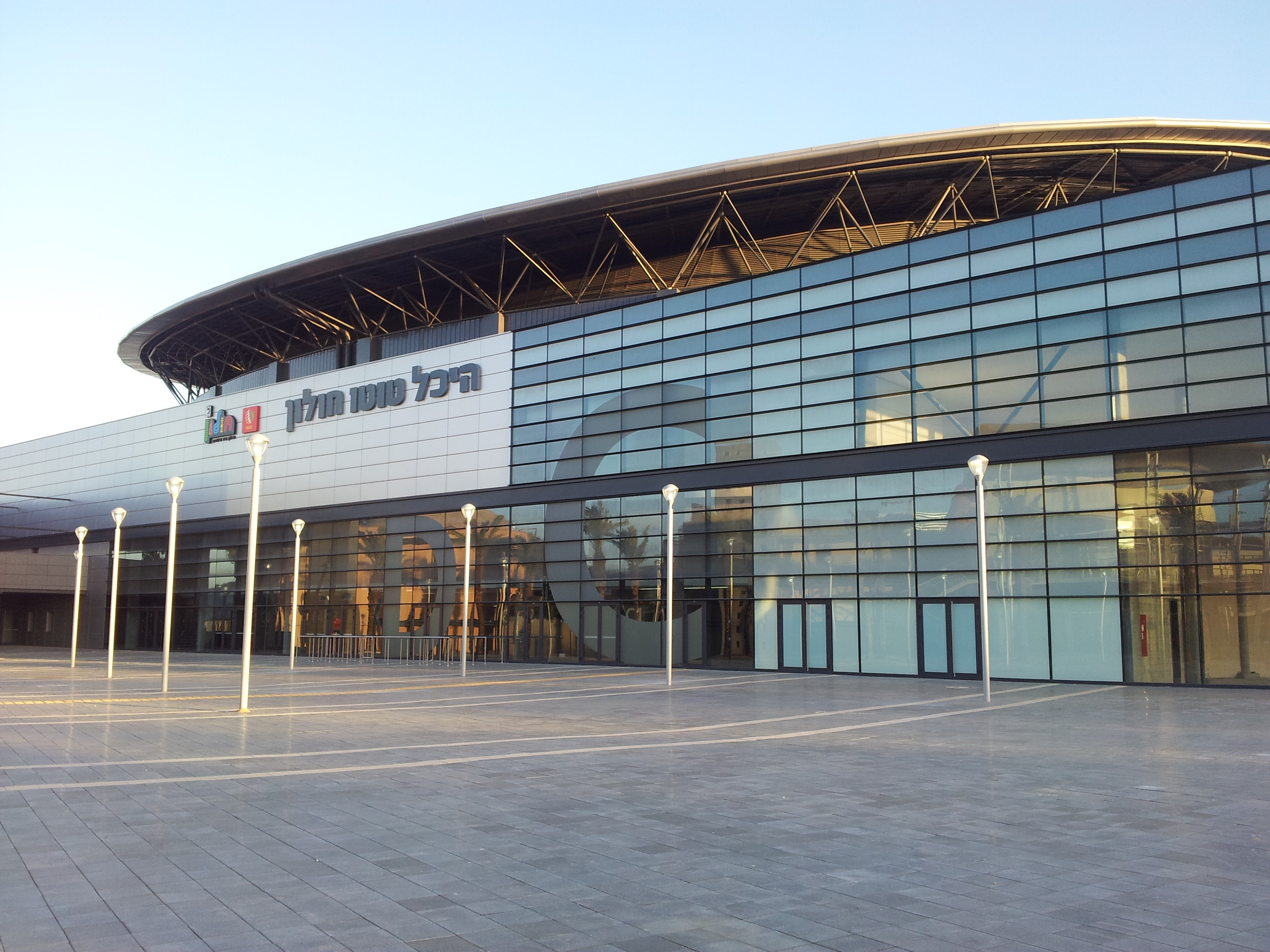 Holon Toto Hall